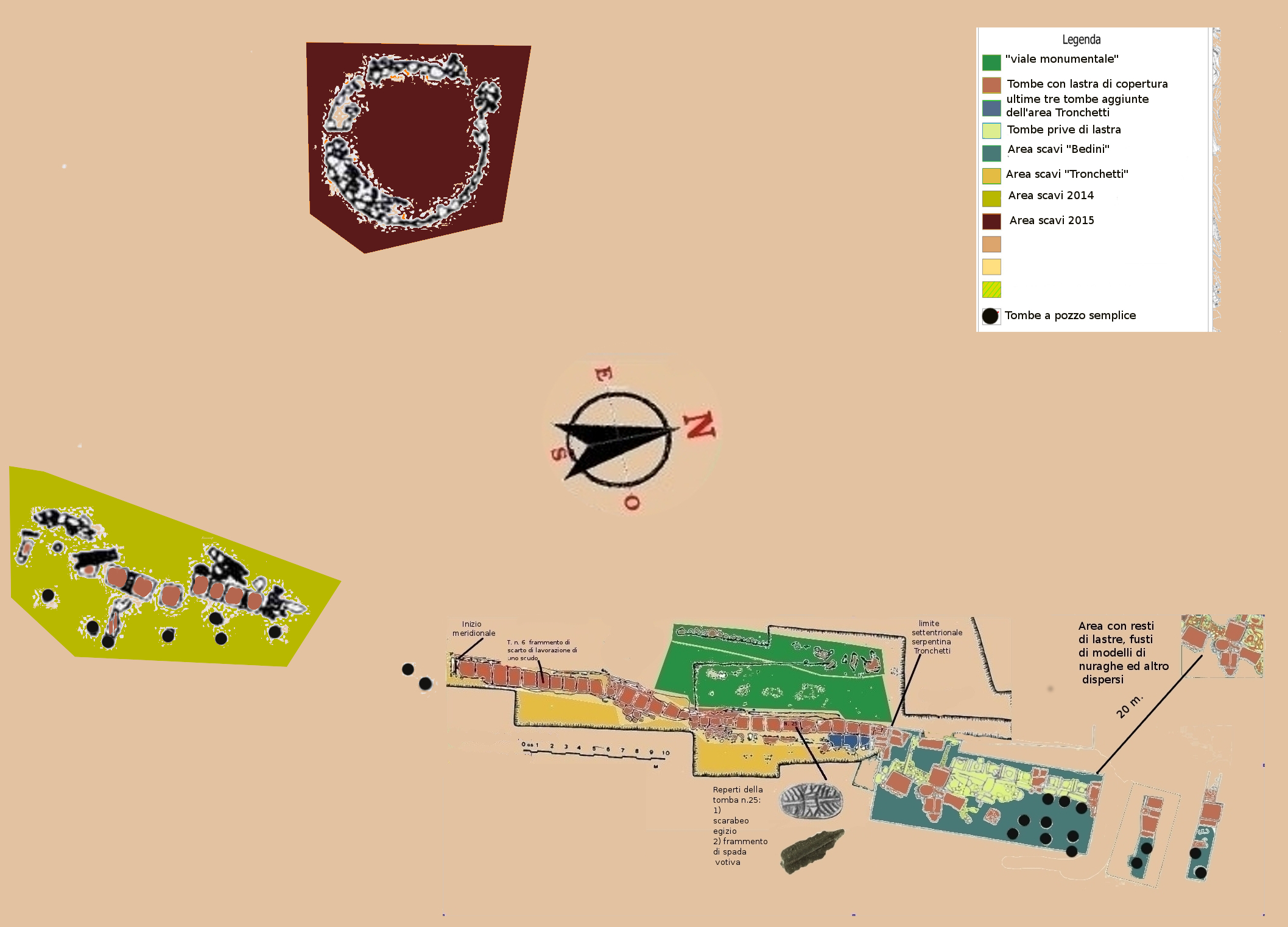 map of Monte Prama tombs